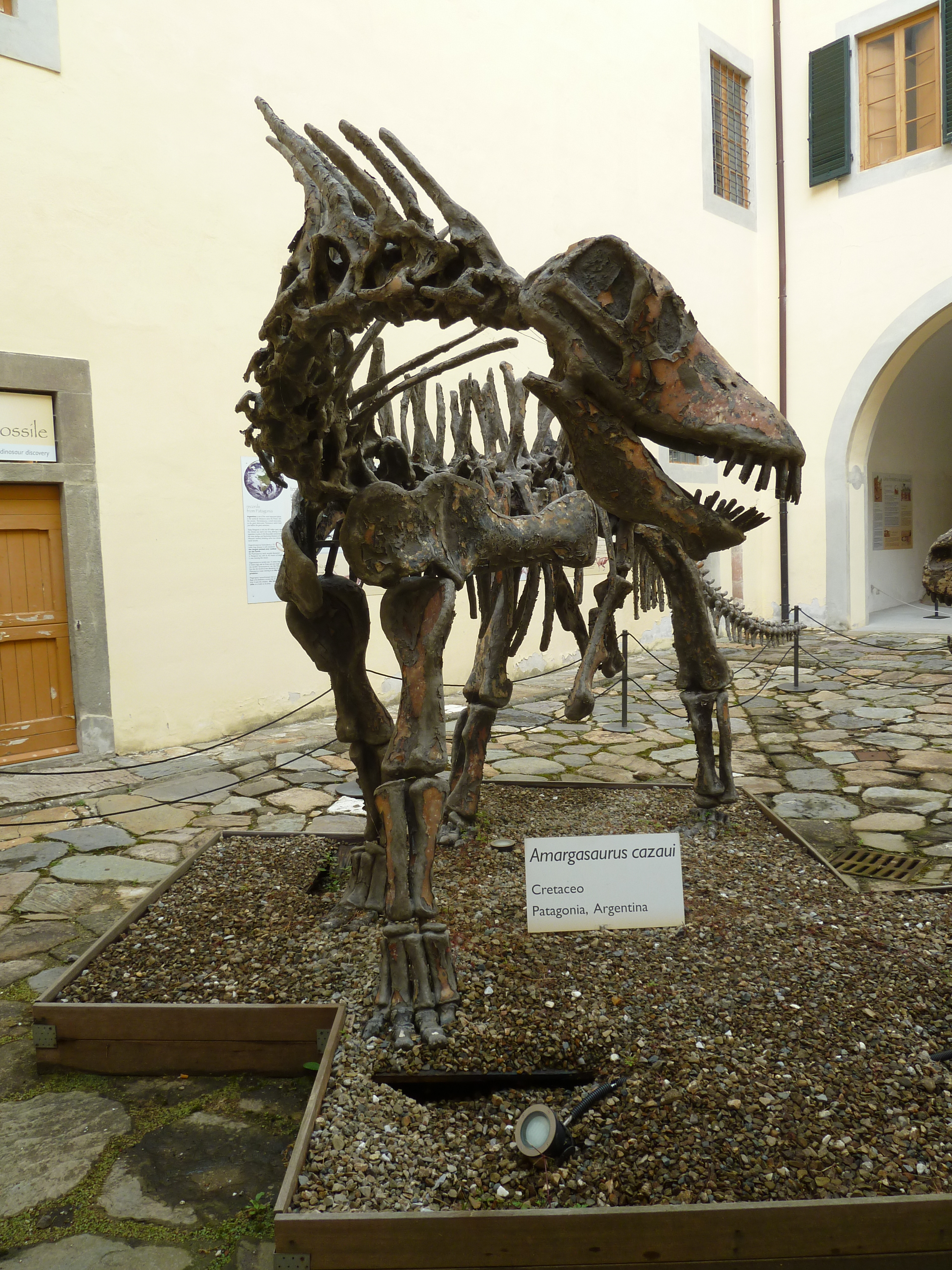 Amargasaurus cazaui Calci